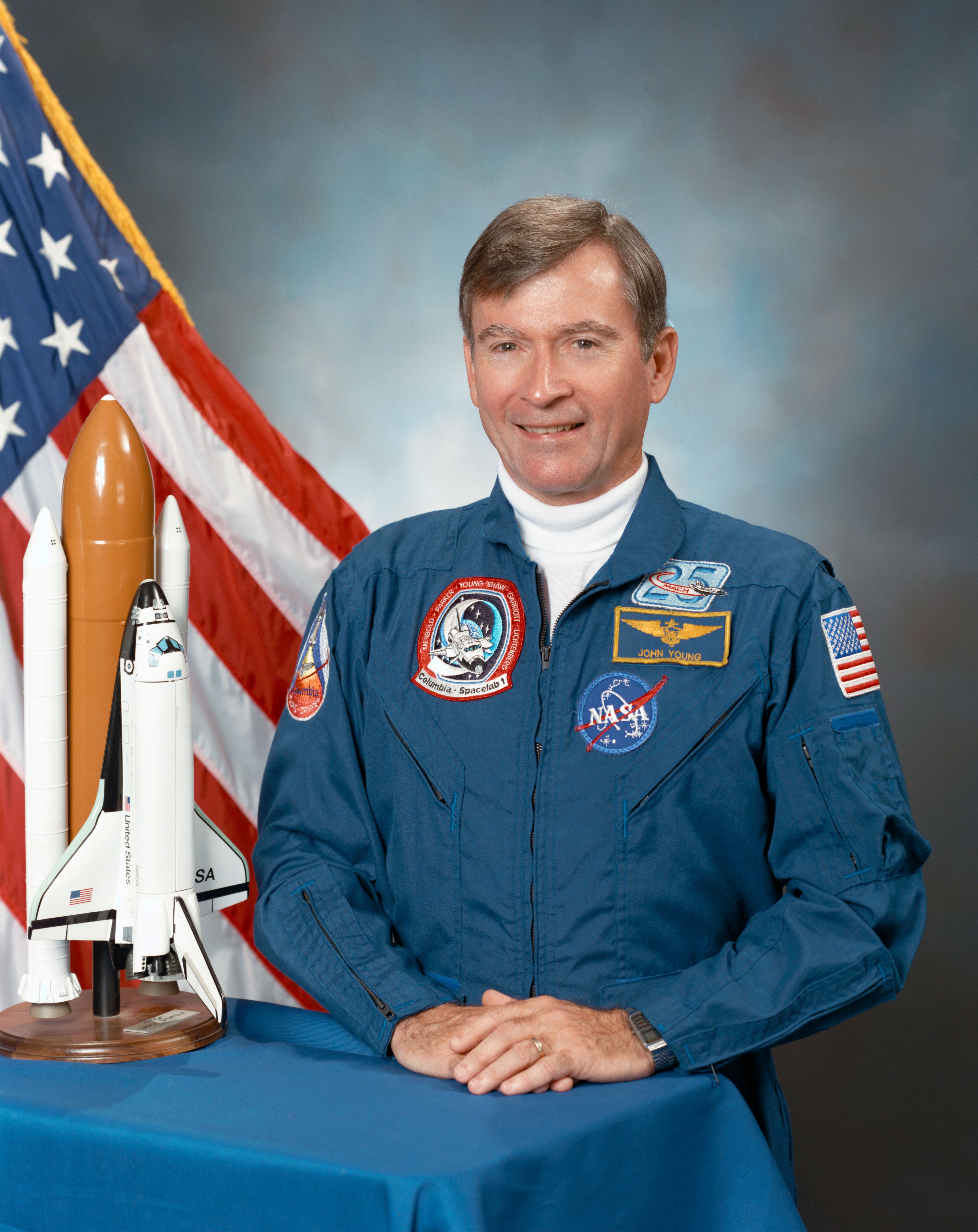 Official portrait of Astronaut John W. Young